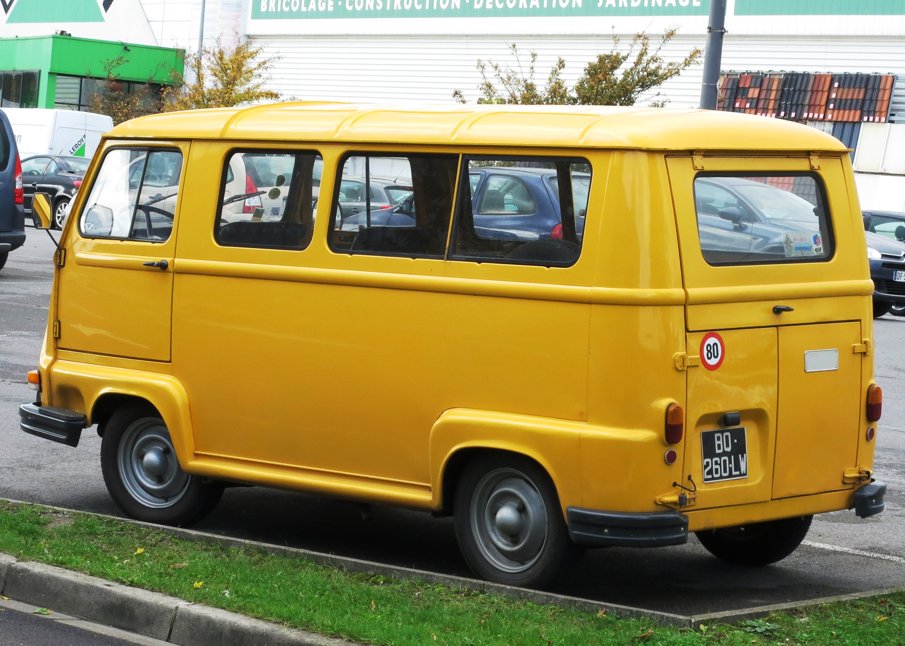 Renault Alouette (ca 1965) Note the three piece rear door arrangement intended to combine some advantages of a top hinged rear door with those of side hinged doors